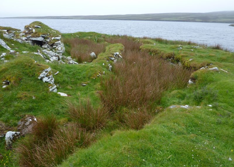 The Broch of Yarrows, near Wick, Caithness, Scotland.